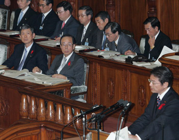 Yasuo Fukuda, Prime Minister, was questioned by Akira Nagatsuma, Member of the House of Representatives, at the National Diet Building in Chiyoda Ward, Tōkyō Metropolis on October 3, 2007.